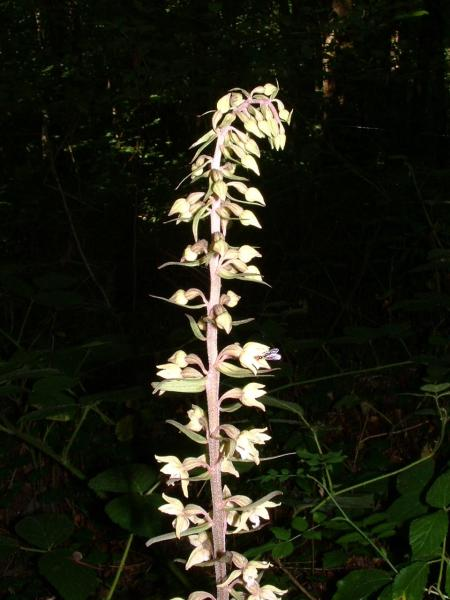 Source: :fr:Image:Epipactis helleborine.jpg Smaller version: :Image:Epipactis helleborine vignette.jpg Image:Epipactis helleborine.jpg